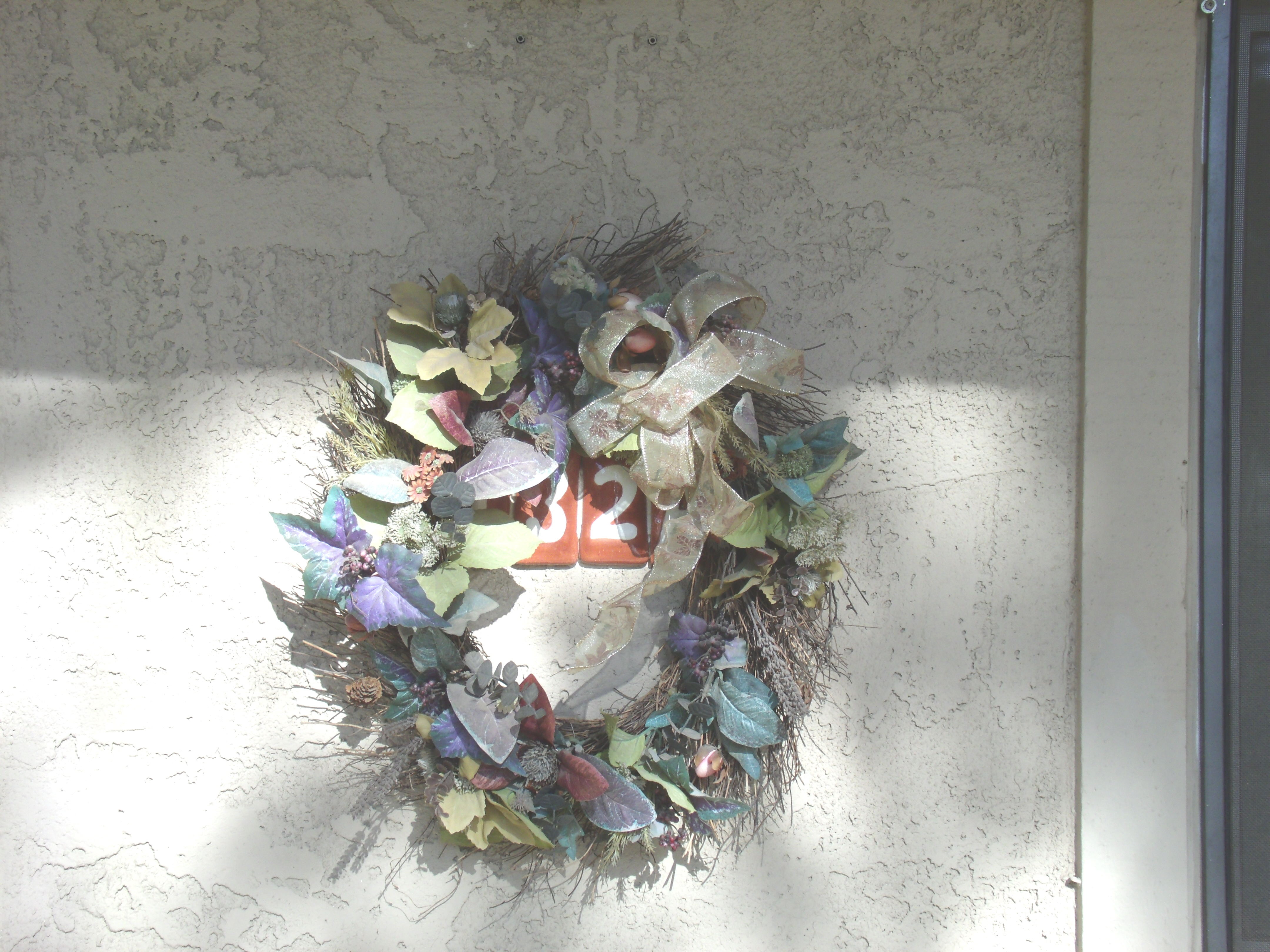 A funeral wreath on 132A, the apartment of the Winfield Apartment building where actor Bob Crane of Hogan's Heroes fame was murdered on June 29, 1978. The Condo is located at 7430 E. Chaparral Road in Scottsdale, Arizona. Phoenix New Times